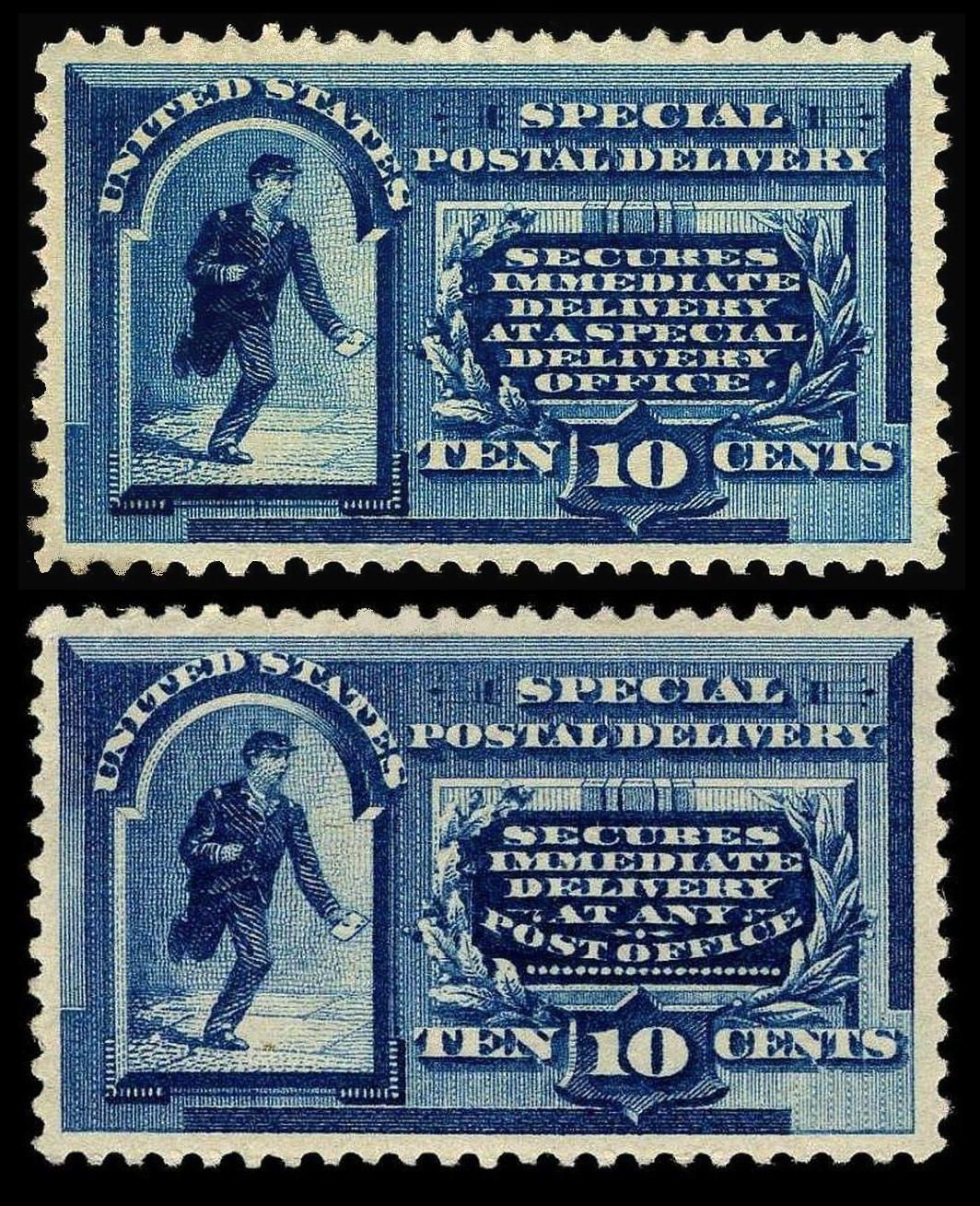 Composite image of two types of Running Messenger Special Delivery stamps